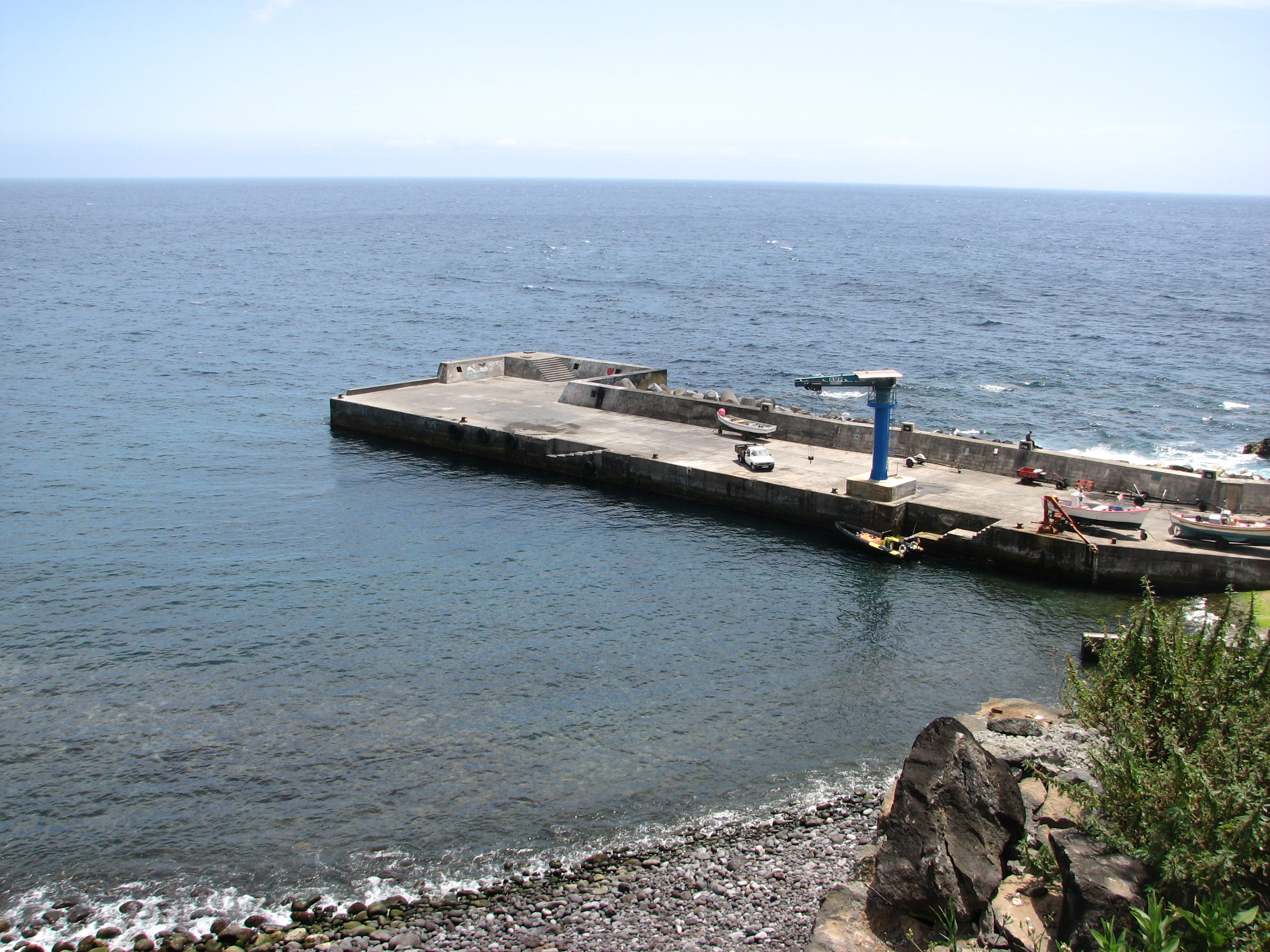 Porto da Casa, the main harbour of Corvo island, Azores.